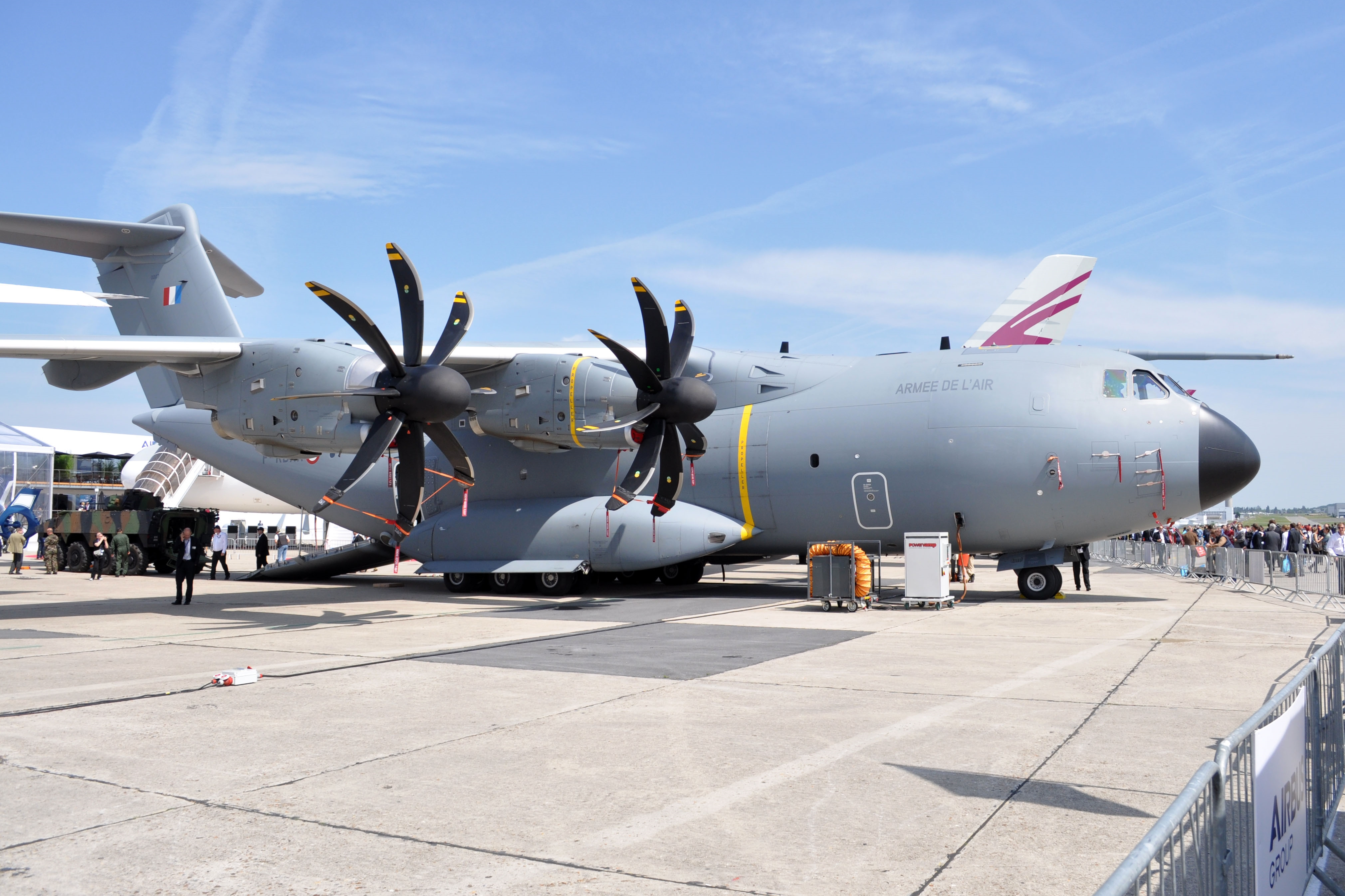 MSN 7 A400M FRENCH AIR FORCE LBG AIRPORT SIAE 2015